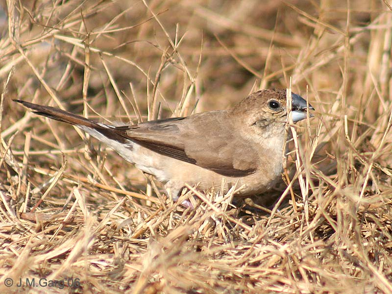 Indian Silverbill (Lonchura malabarica) at Hodal in Faridabad District of Haryana, India.